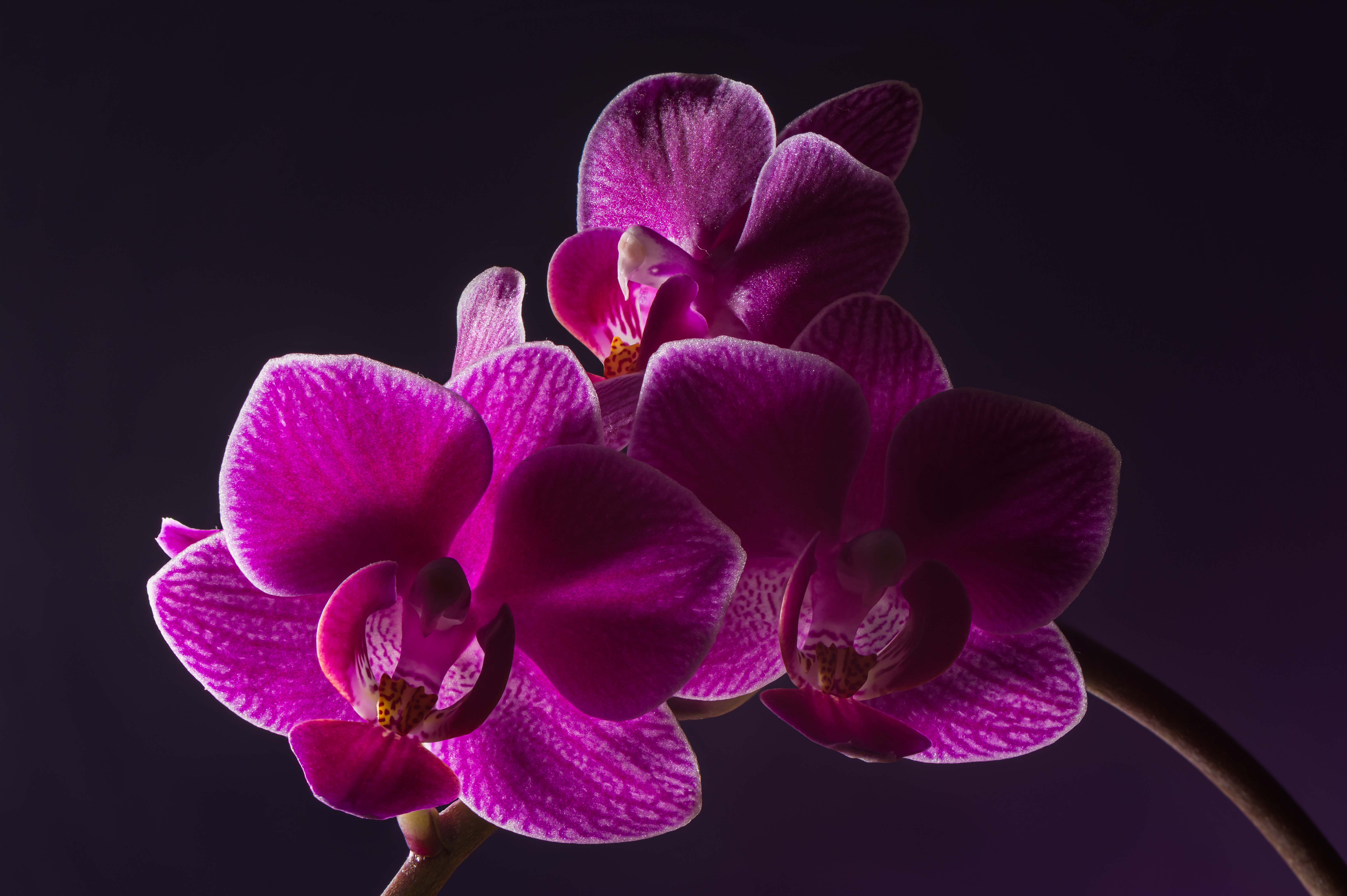 Purple Phalaenopsis Mini cultivar